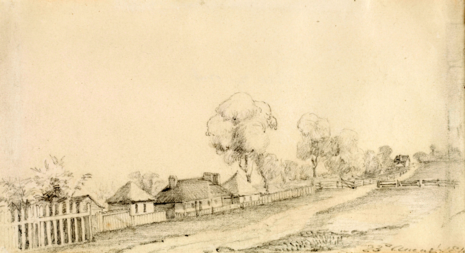 Dairy Cottage, Parramatta, New South Wales, 1844